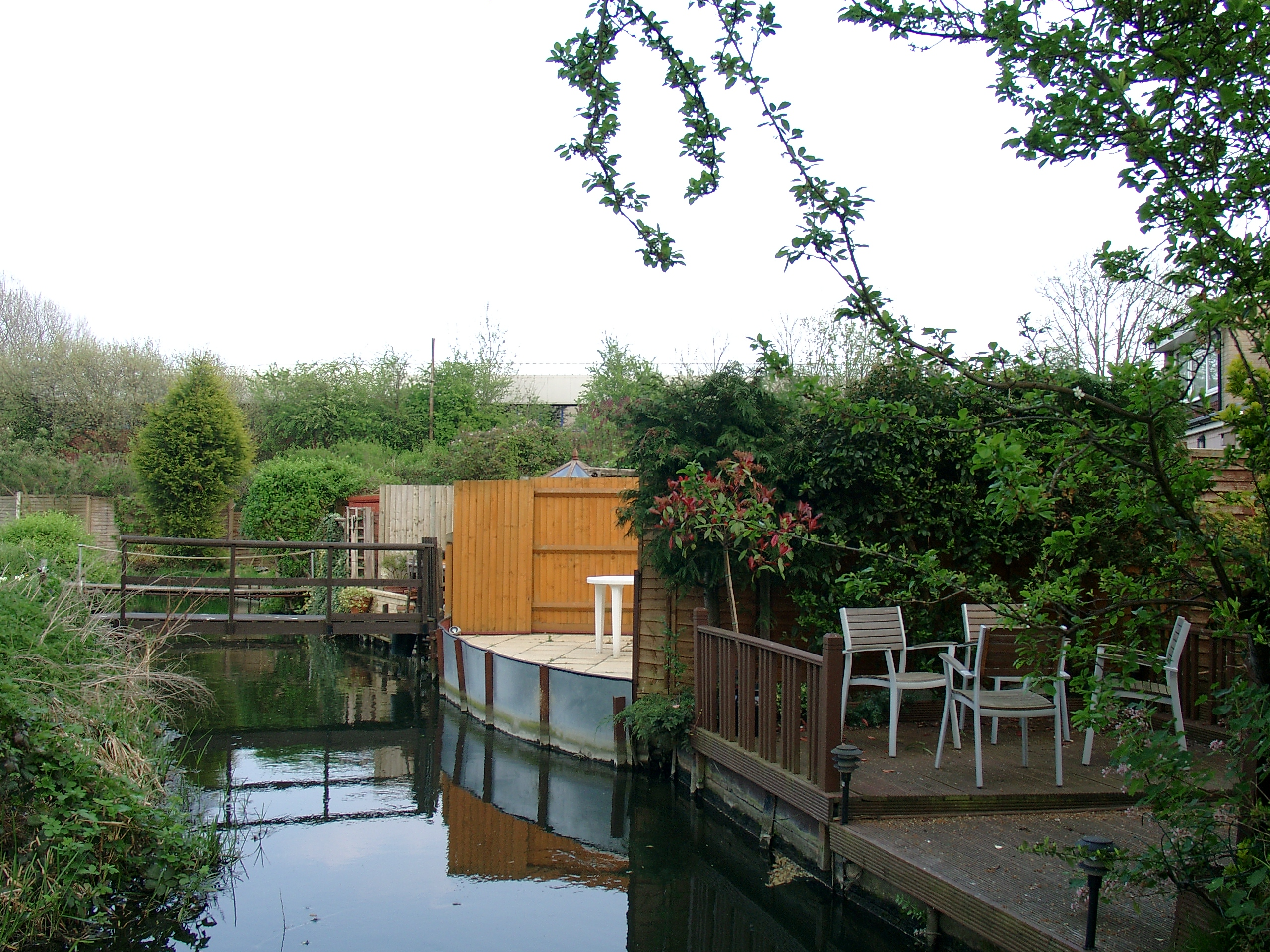 Author: Cmatcmextra - me (pseudonymous) Source: My digital camera Cmatcmextra 16:35, 16 April 2007 (UTC)